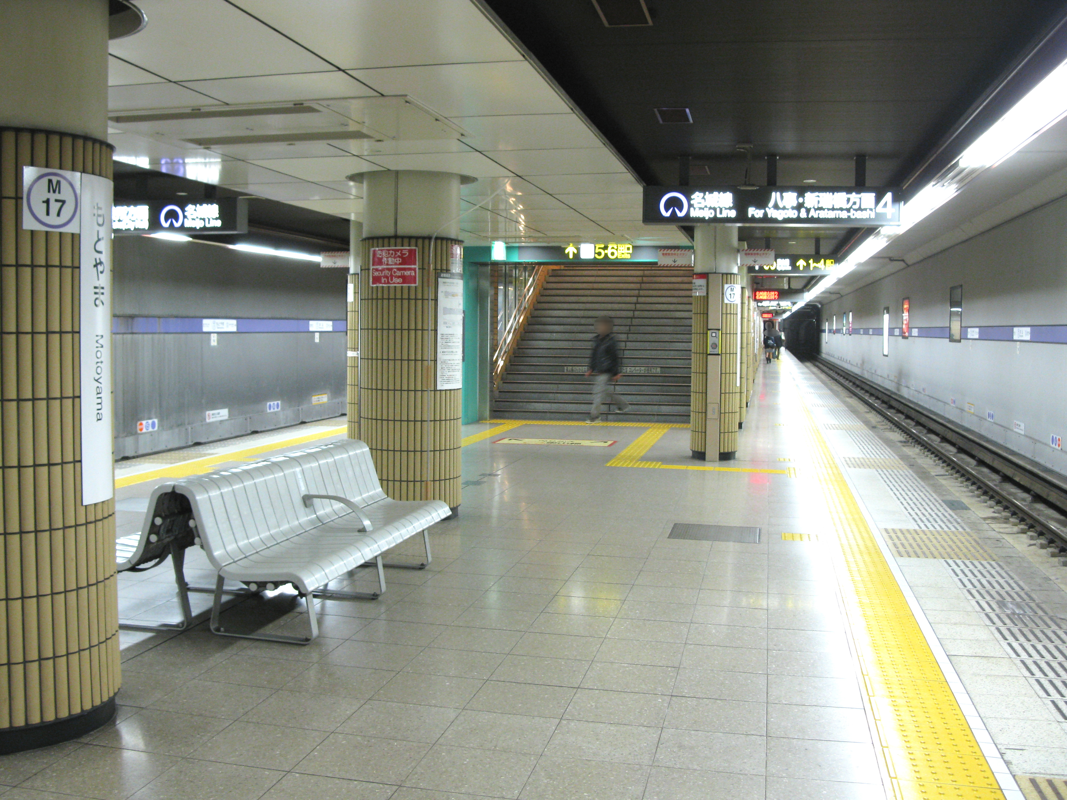 Motoyama Station platform (Nagoya Municipal Subway Meijō Line)